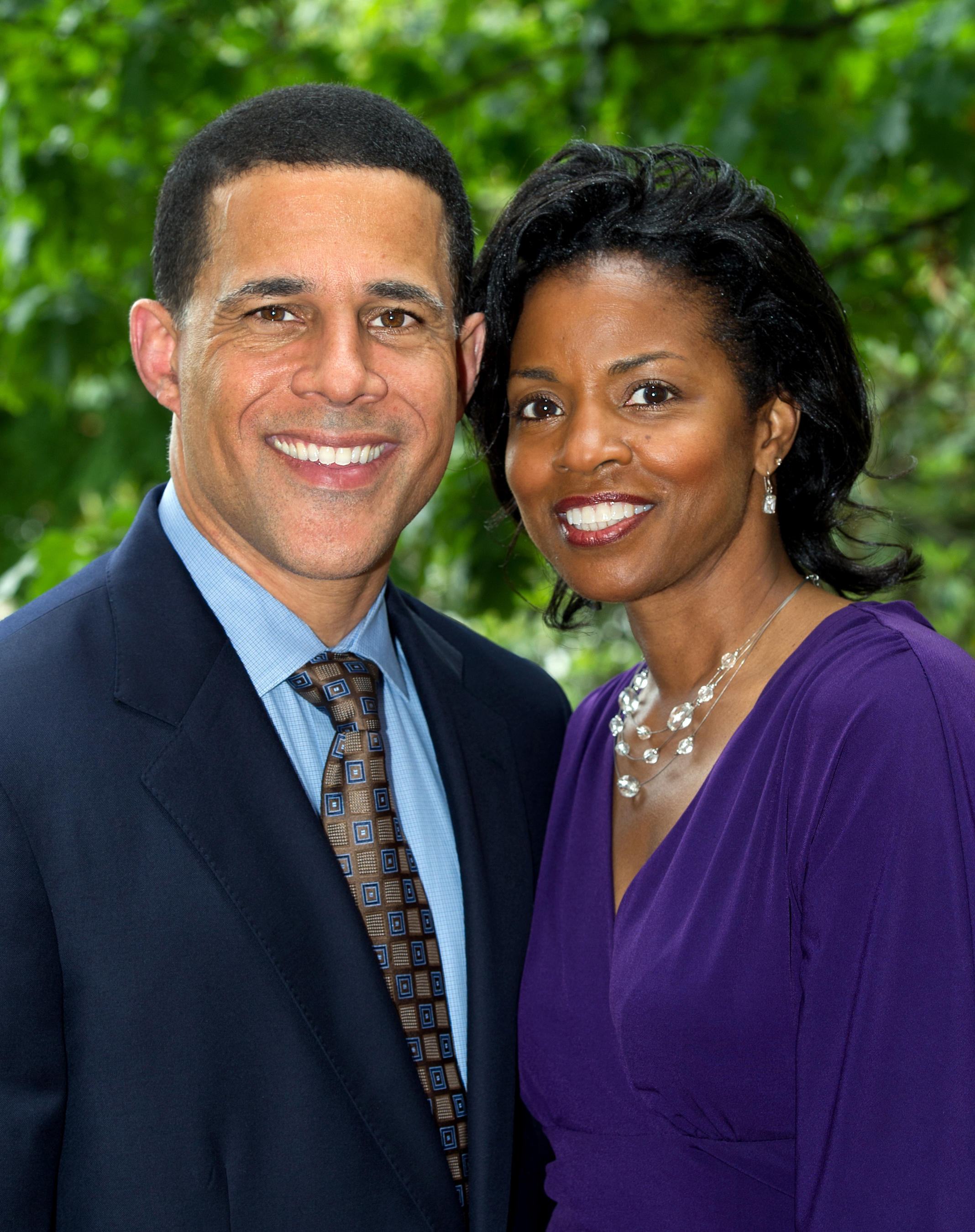 Formal engagement photo of Anthony Brown and Karmen Walker